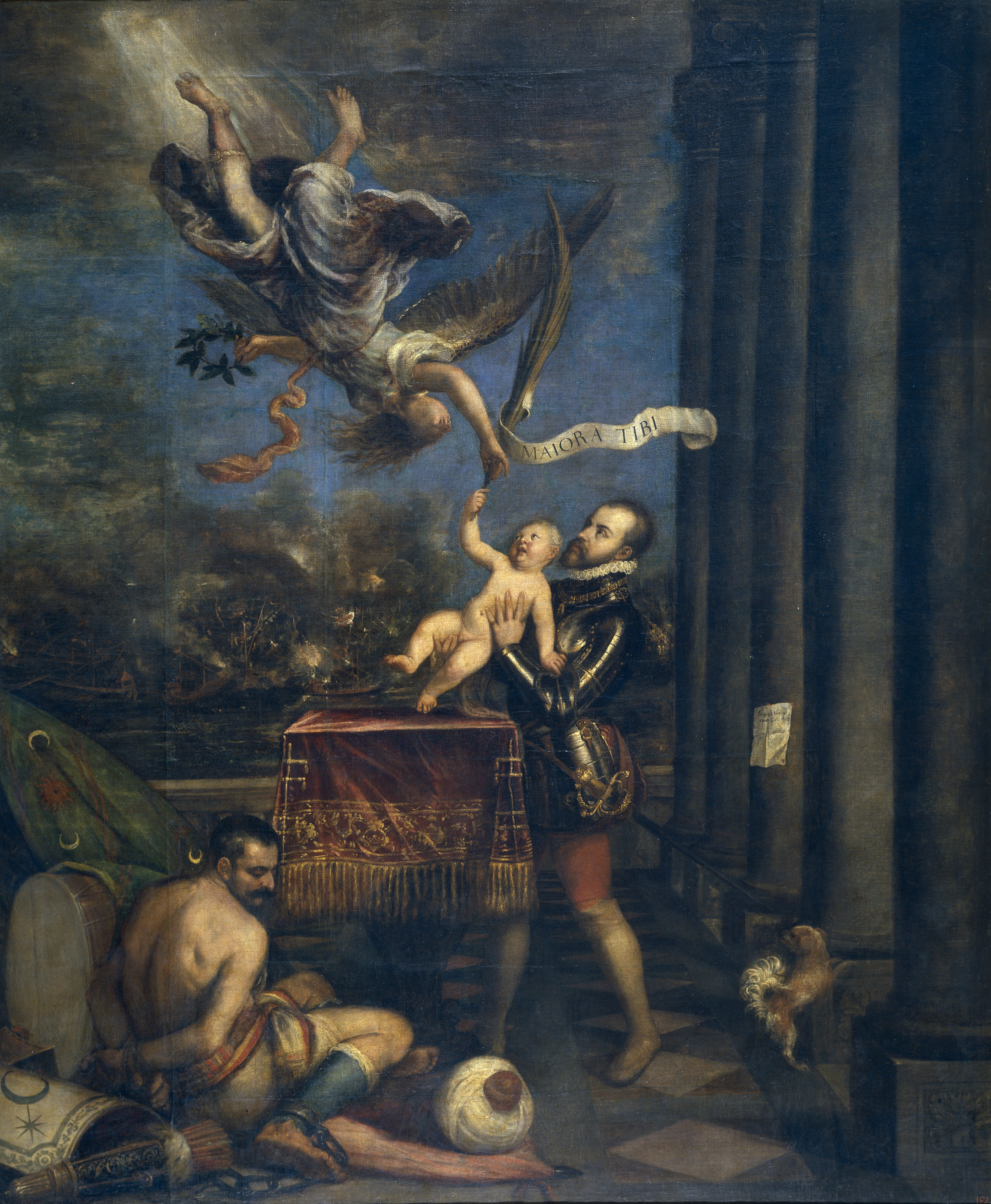 Titian, Following Victory at Lepanto, Felipe II offers Prince Fernando to Heaven, 1572-1575, oil on canvas, 335 × 274 cm Philip II offering Fernando to Victory. Museo del Prado, Madrid.Painted by Titian in his nineties, this allegorical work celebrates the victory of a Catholic coalition over the Ottoman Turks at the Battle of Lepanto in 1571 and the birth shortly afterwards of a male heir to King Philip II of Spain, Don Fernando, which were both seen as signs of God's favour. The battle is shown in the background, and a bound and defeated Turk at Philip's feet. An angel descends from heaven bearing a palm branch with a motto for Fernando, who is held up by Philip: "Majora tibi" (may you achieve greater deeds). Titian died in 1576 and Prince Fernando in 1578. Lepanto effectively ended Ottoman ambitions in the western Mediterranean. (Reference: Robert Enggass and Jonathan Brown, Italian and Spanish Art, 1600–1750: Sources and Documents, Evanston: IL: Northwestern University Press, 1992, ISBN 0810110652, p. 213.